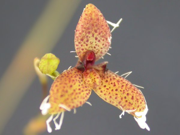 Effusiella ornata - see Effusiella at pt.Wikipedia for publications of names.